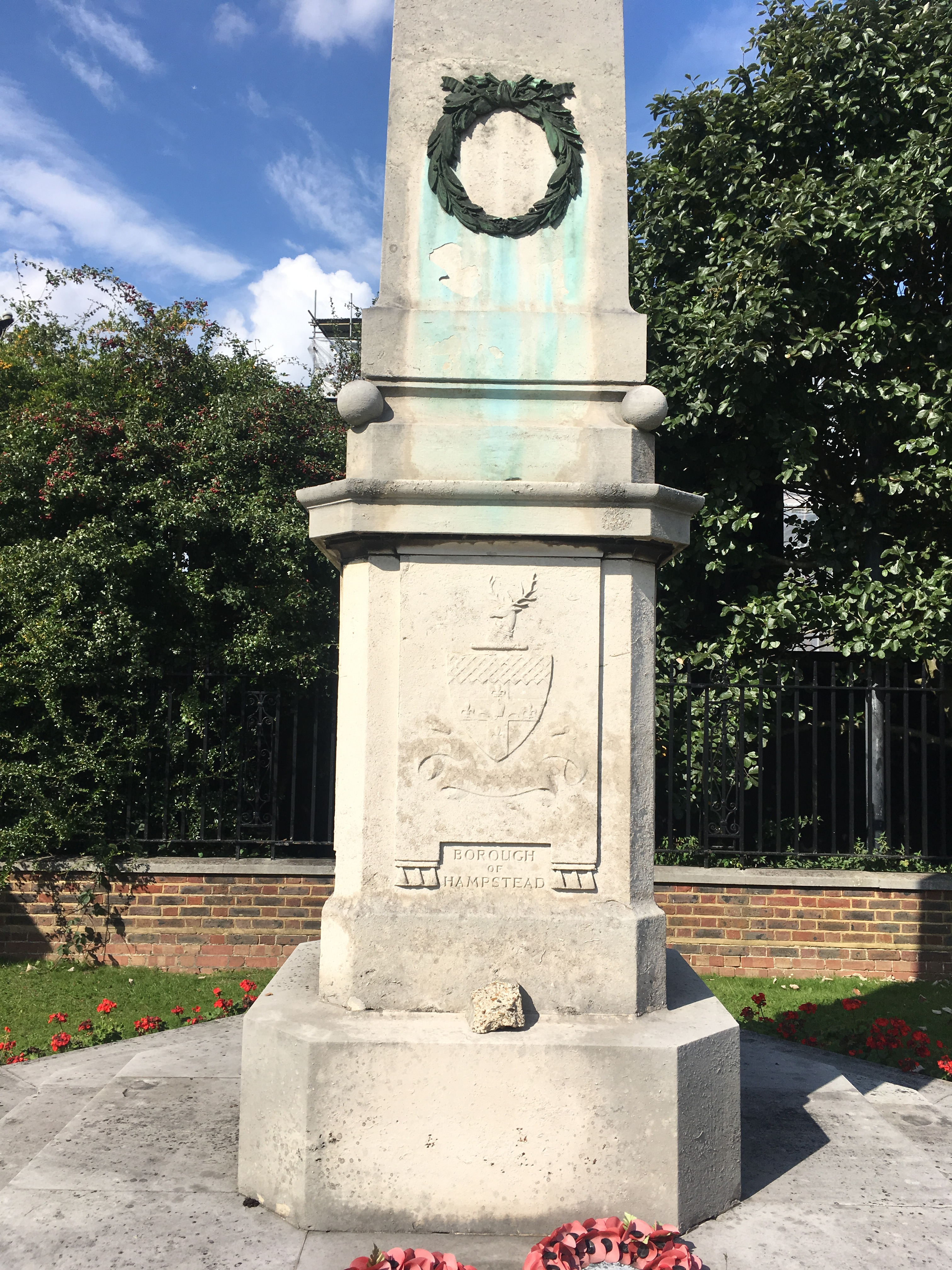 Hampstead War Memorial Wikidata has entry Q27087674 with data related to this item.